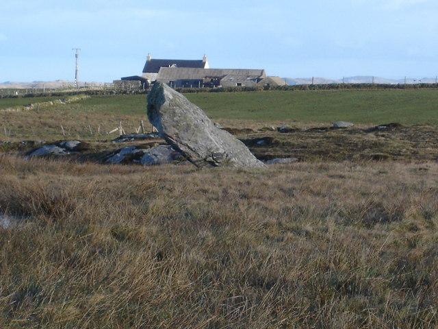 Standing stone near Caolas A somewhat leaning standing stone.